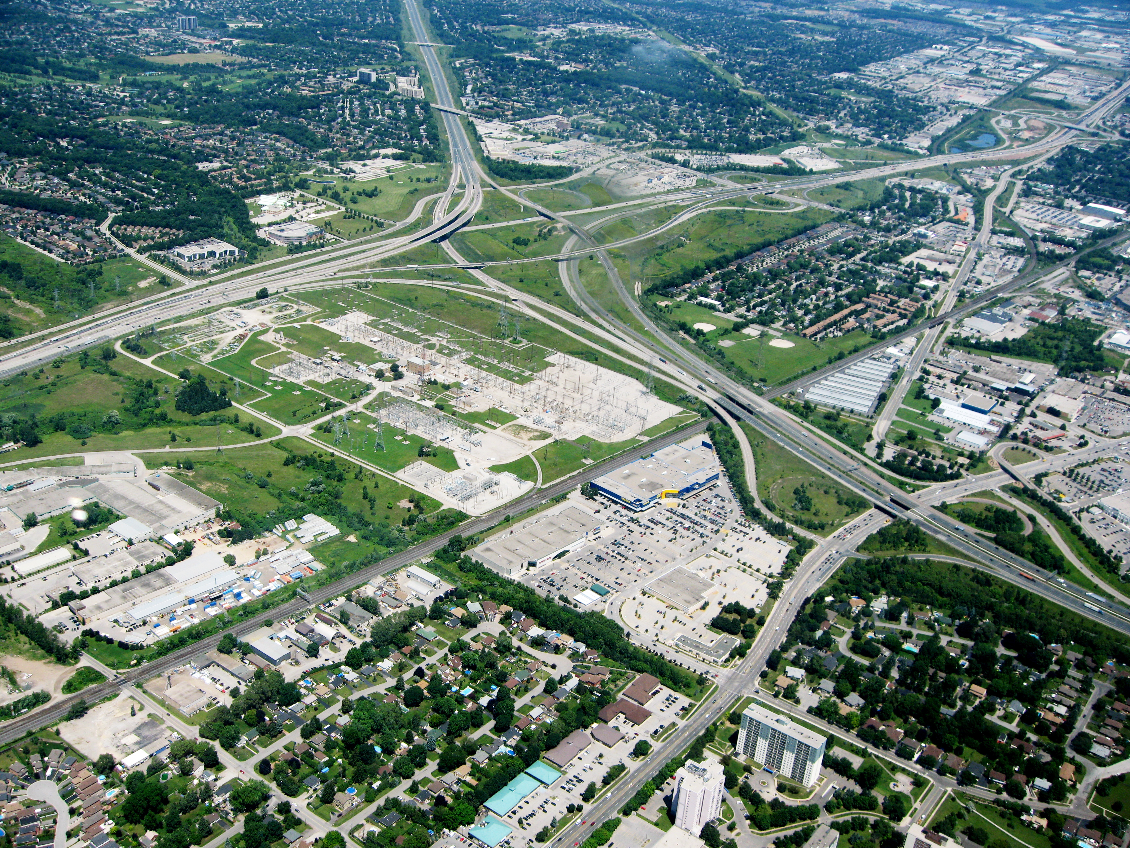 The Freeman Interchange viewed from the air in Burlington, Ontario